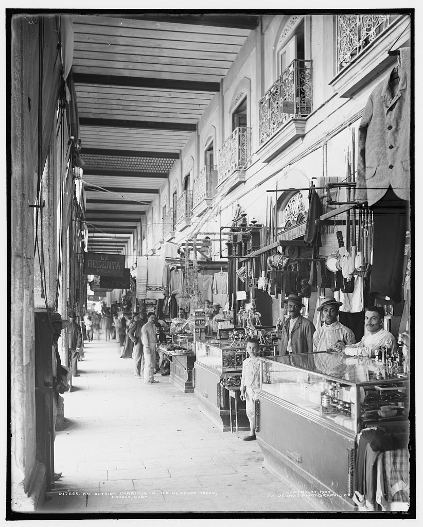 Plaza del Vapor.11. Havana, Cuba. 1904